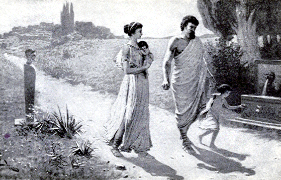 Elementary history of Greece, made up principally of stories about persons, givingat the same time a clear idea of the most important events in the ancient world and calculated to enforce the lessons of perseverance, courage, patriotism, and virtue that are taught by the noble lives described. Beginning with the legends of Jason, Theseus, and events surrounding the Trojan War, the narrative moves on to present the contrasting city-states of Sparta and Athens, the war against Persia,their conflicts with each other, the feats of Alexander the Great, and annexation by Rome.